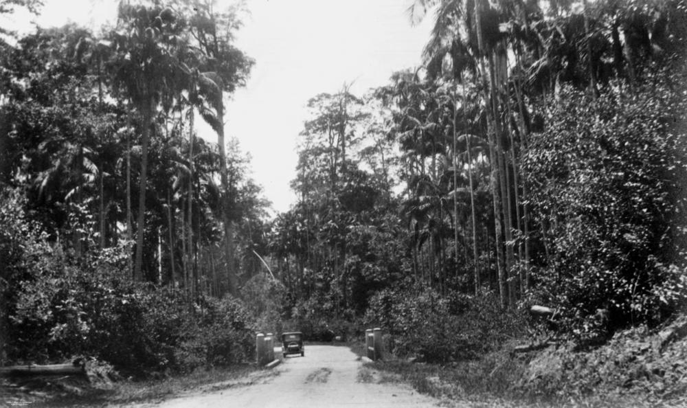 Motor vehicle travelling along the North Coast Road, 1935. Early model motor vehicle driving through thick palm filled bush at Forest Glen.